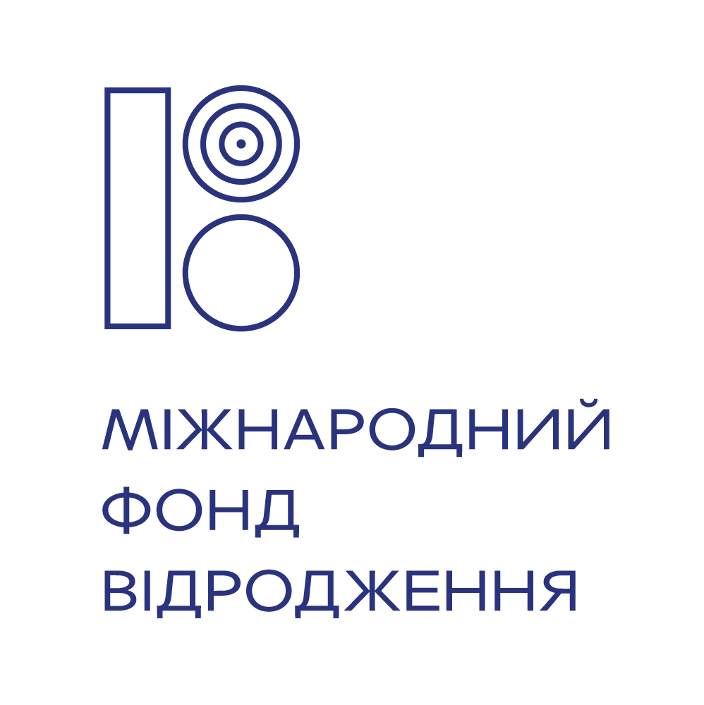 Logotype of International Renaissance Foundation